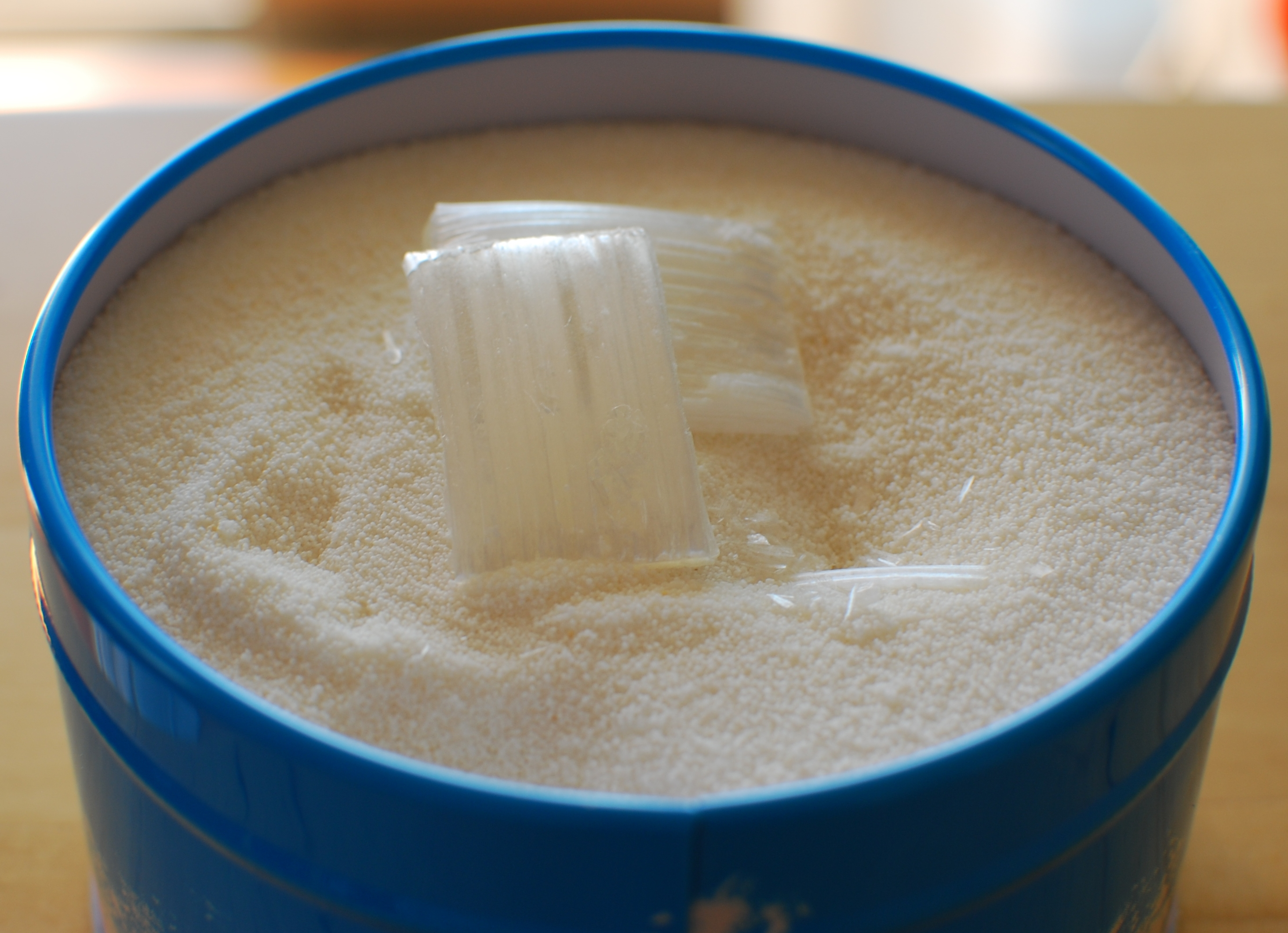 The rice candy "Shimobashira" (霜ばしら) in the rakugan-powder made from rice, from Kokonoehonpo Tamazawa, Sendai.